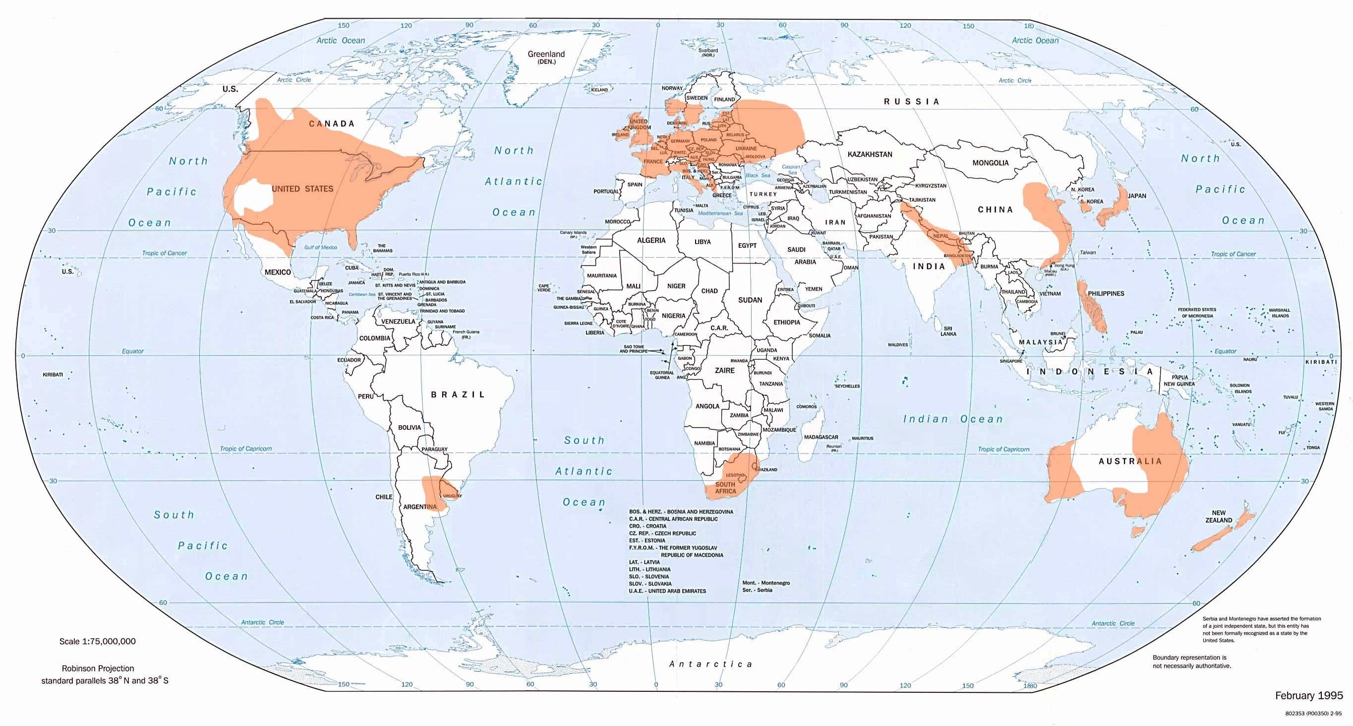 Shows where tornadoes are most likely to occur. From the website of the National Climatic Data Center, Asheville, North Carolina, USA.